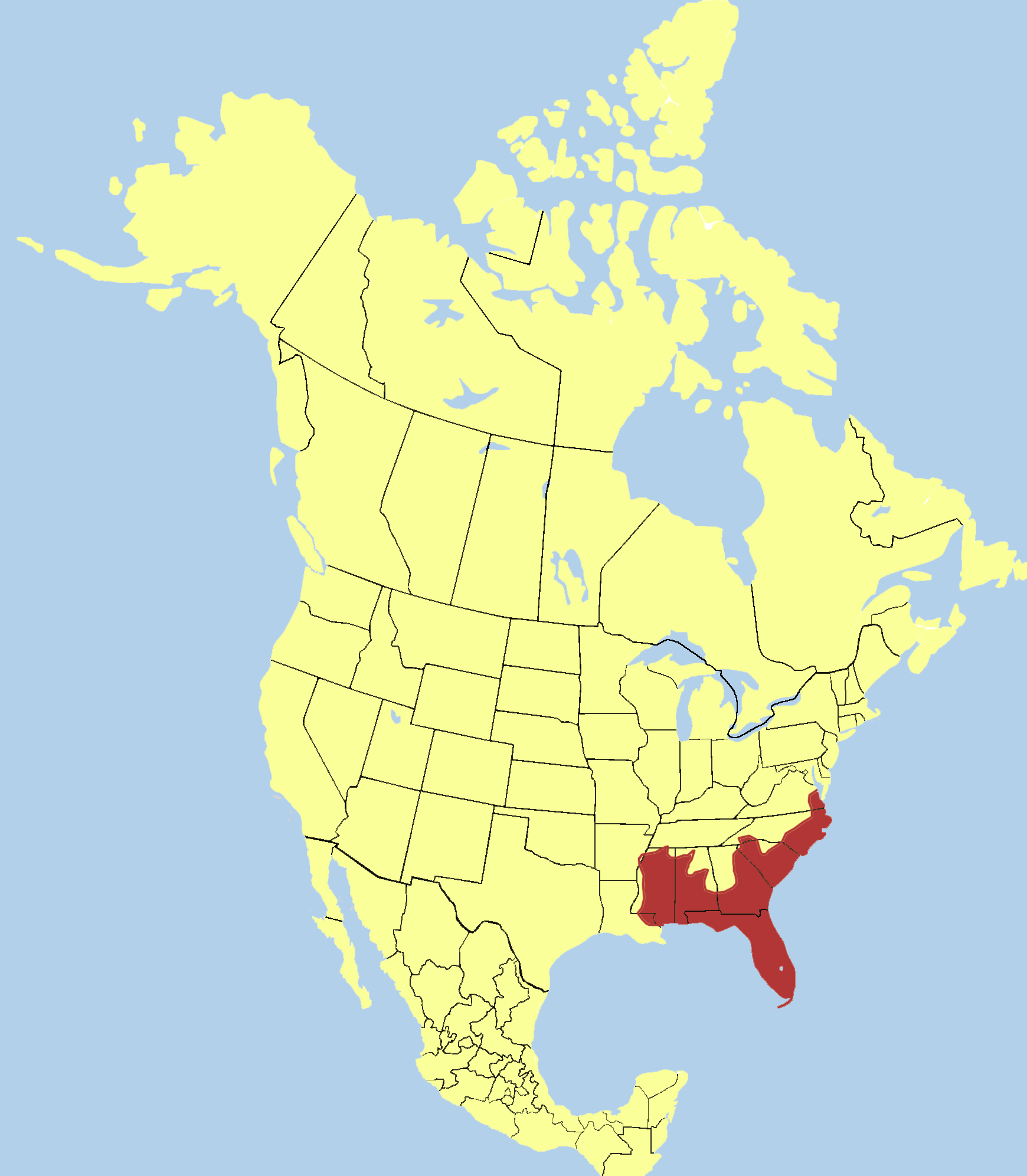 The Distribution of the Southern Cricket Frog